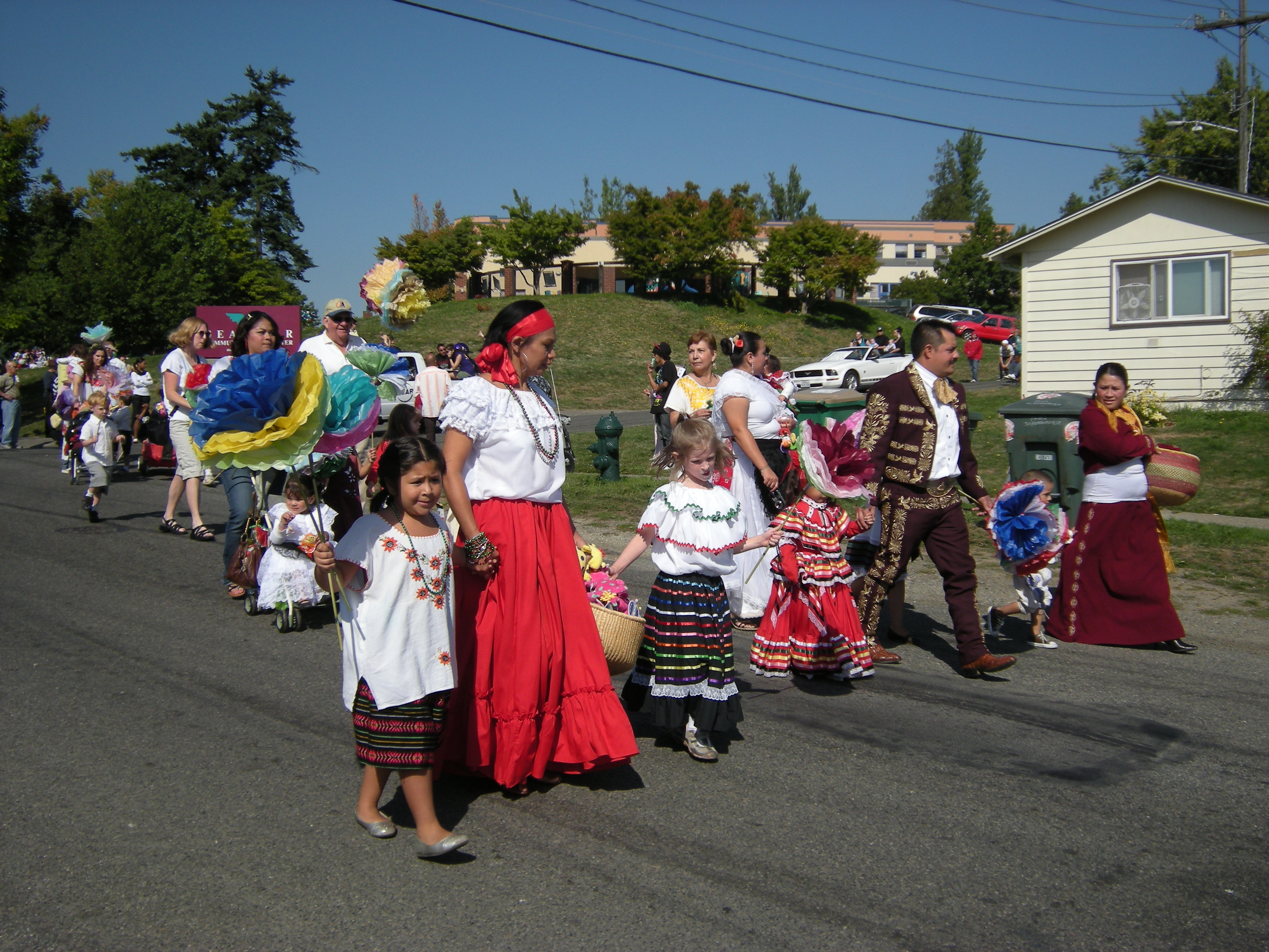 People in traditional Mexican clothing, 2008 Fiestas Patrias parade, South Park, Seattle, Washington.